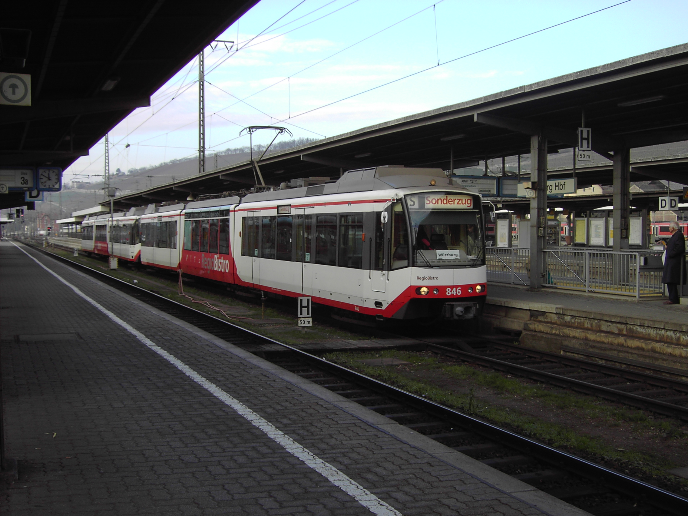 EMU of the Stadtbahn Karlsruhe as a special train at Würzburg main station.